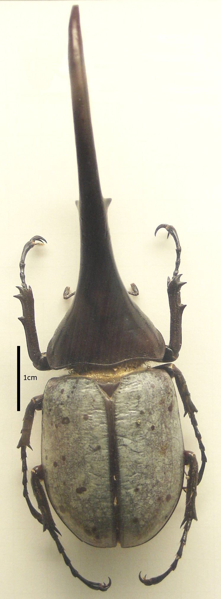 White-winged form of Dynastes hercules (Scarabaeidae), mounted specimen from South America.